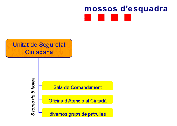 Public Safety Unit from Police of the Generalitat - Mossos d'Esquadra.